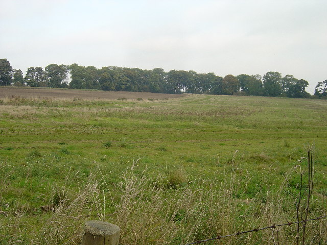 Site of the lost village of Cowlam in the East Riding of Yorkshire, England.This is the site of a bronze age village - details can be found at